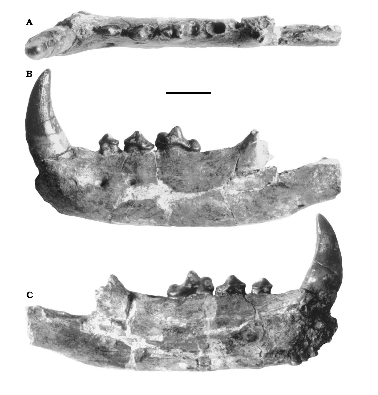 Guangxicyon sinoamericanus IVPP V11818−1, photographs of the left lower jaw with p3–m1 and alveoli for p1–2 and m2–3; in occlusal (A), lateral (B), and medial (C) views. Scale bar 2 cm.